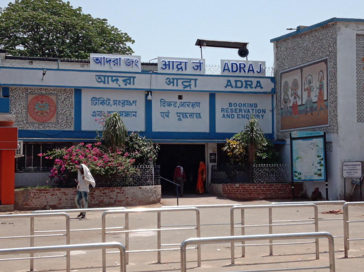 Booking counter of adra station